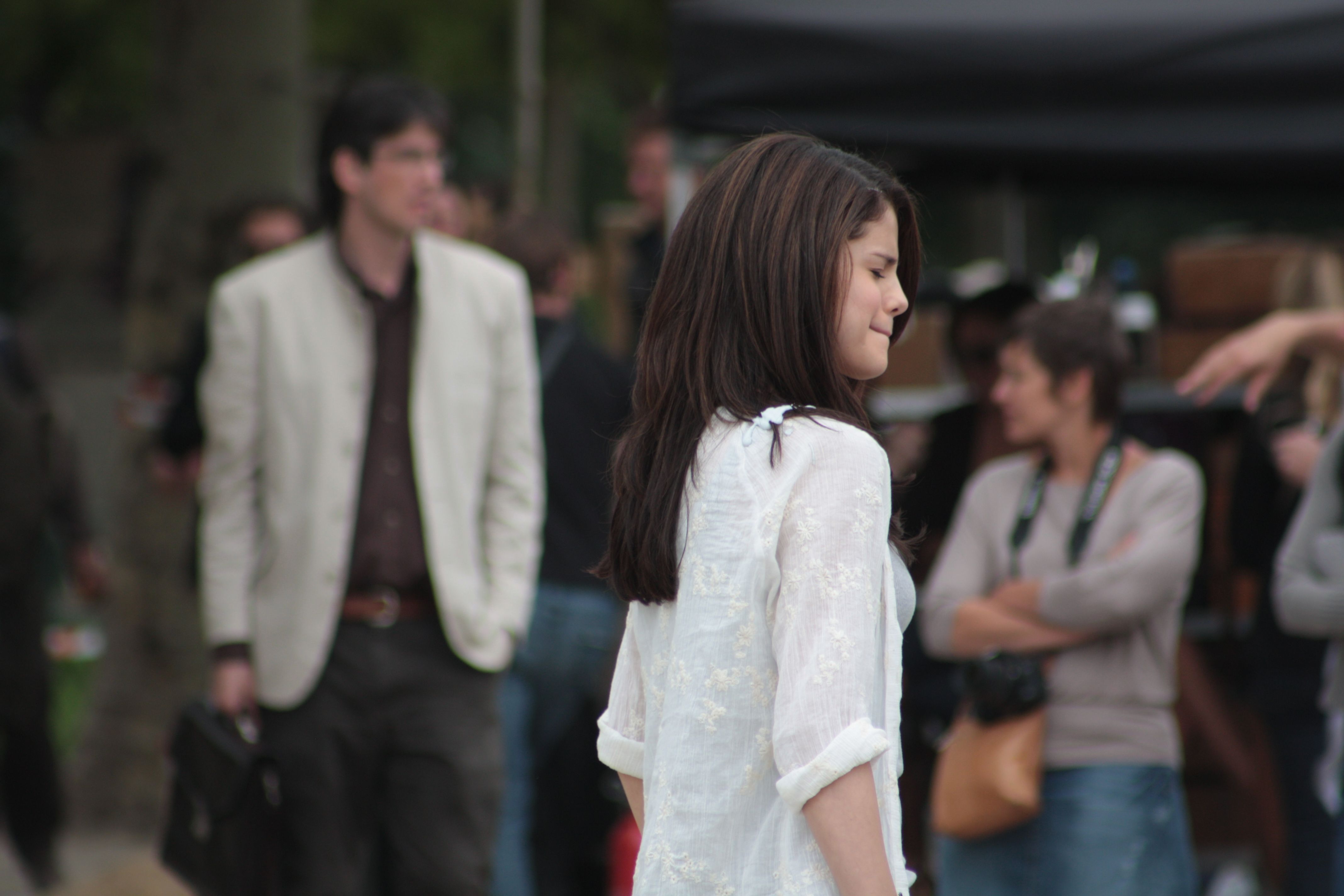 Selena Gomez filming Monte Carlo in Paris. June 21 2010.